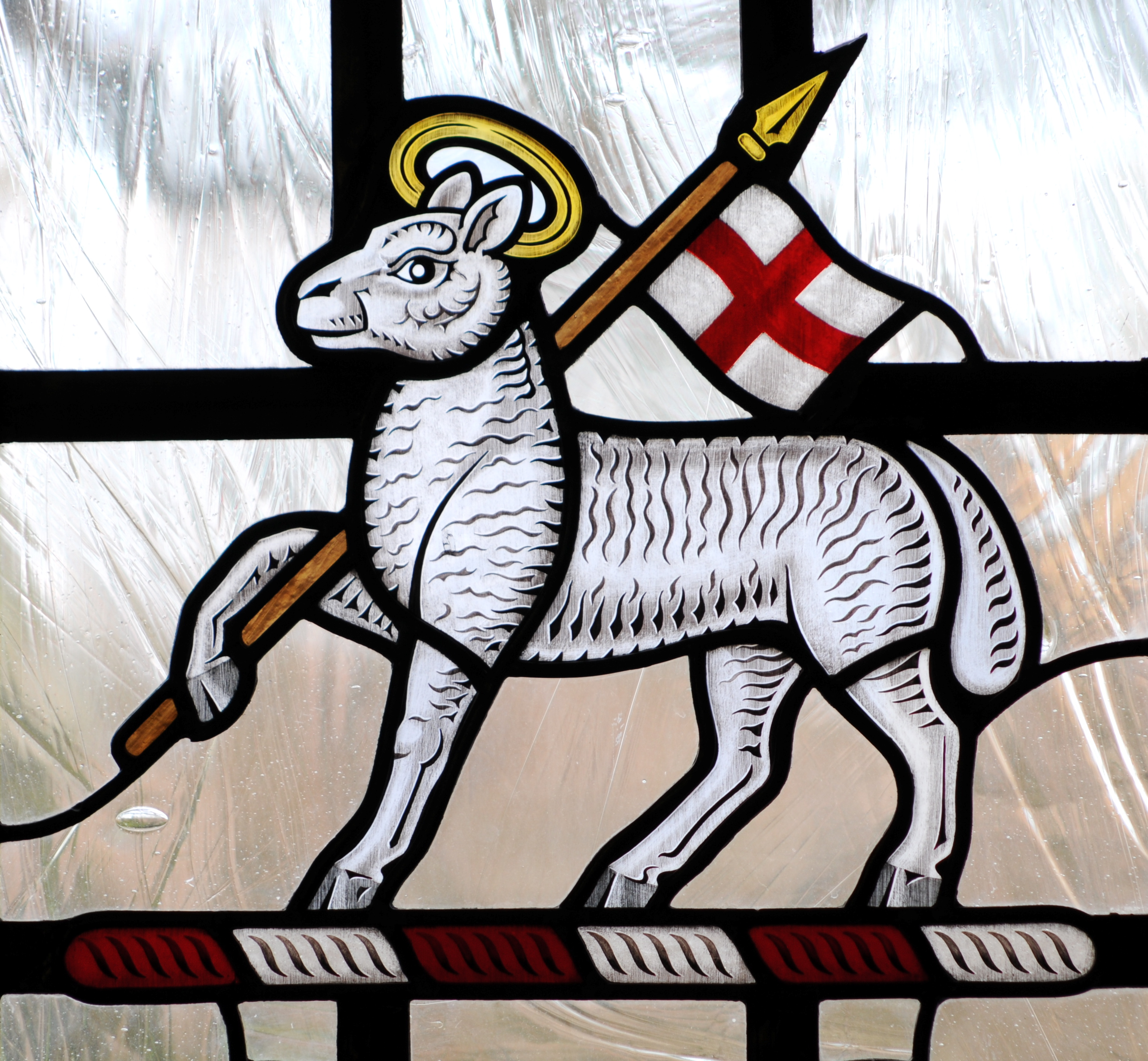 Guildford Cathedral Stained Glass - Paschal Lamb and Flag. The Queen's (Royal West Surrey) Regiment.